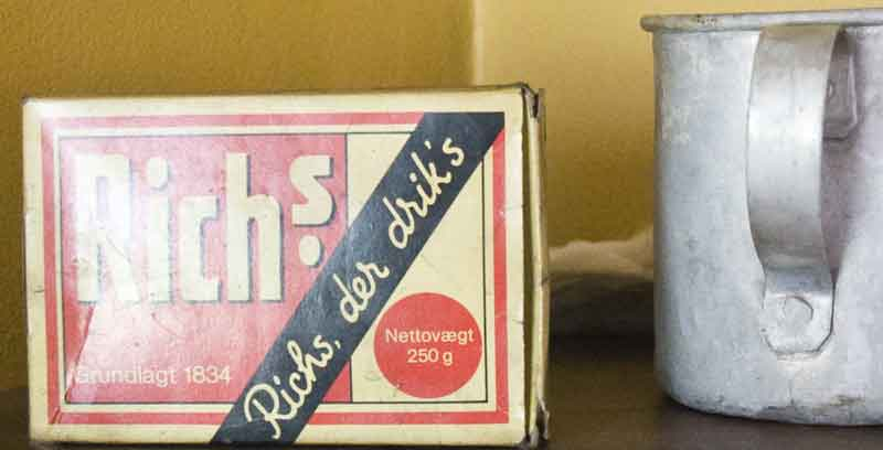 Rich packet for a danish surrogate coffe made of chicory roots